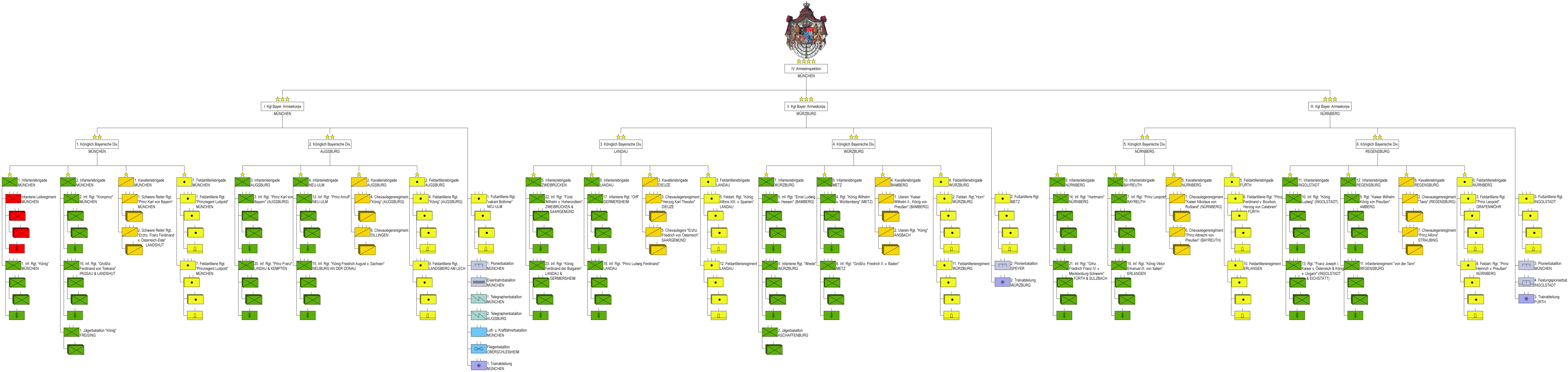 Structure of the Royal Bavarian Army (Königliche Bayerische Armee) 1914